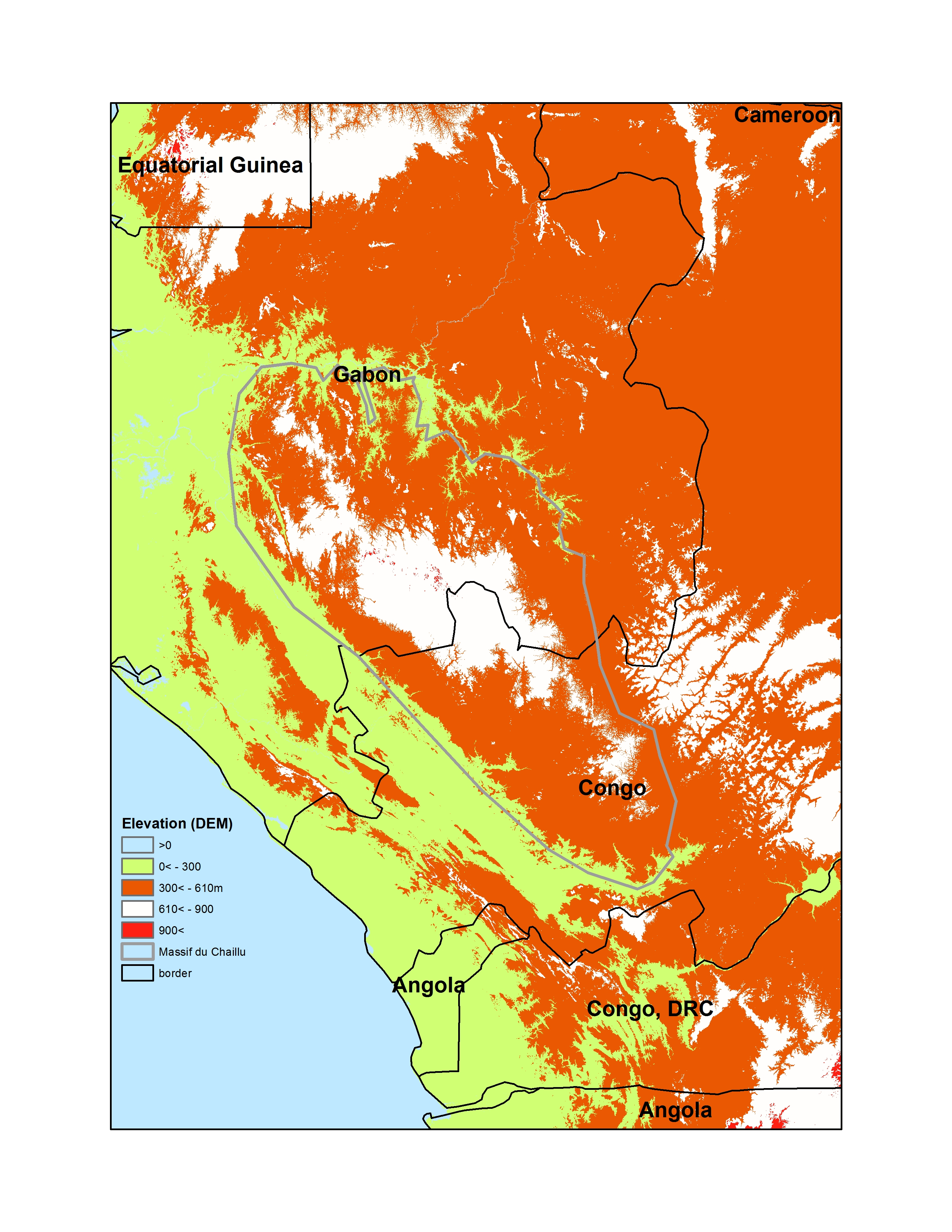 Map showing the Chaillu Mountain range based on elevation using DEM